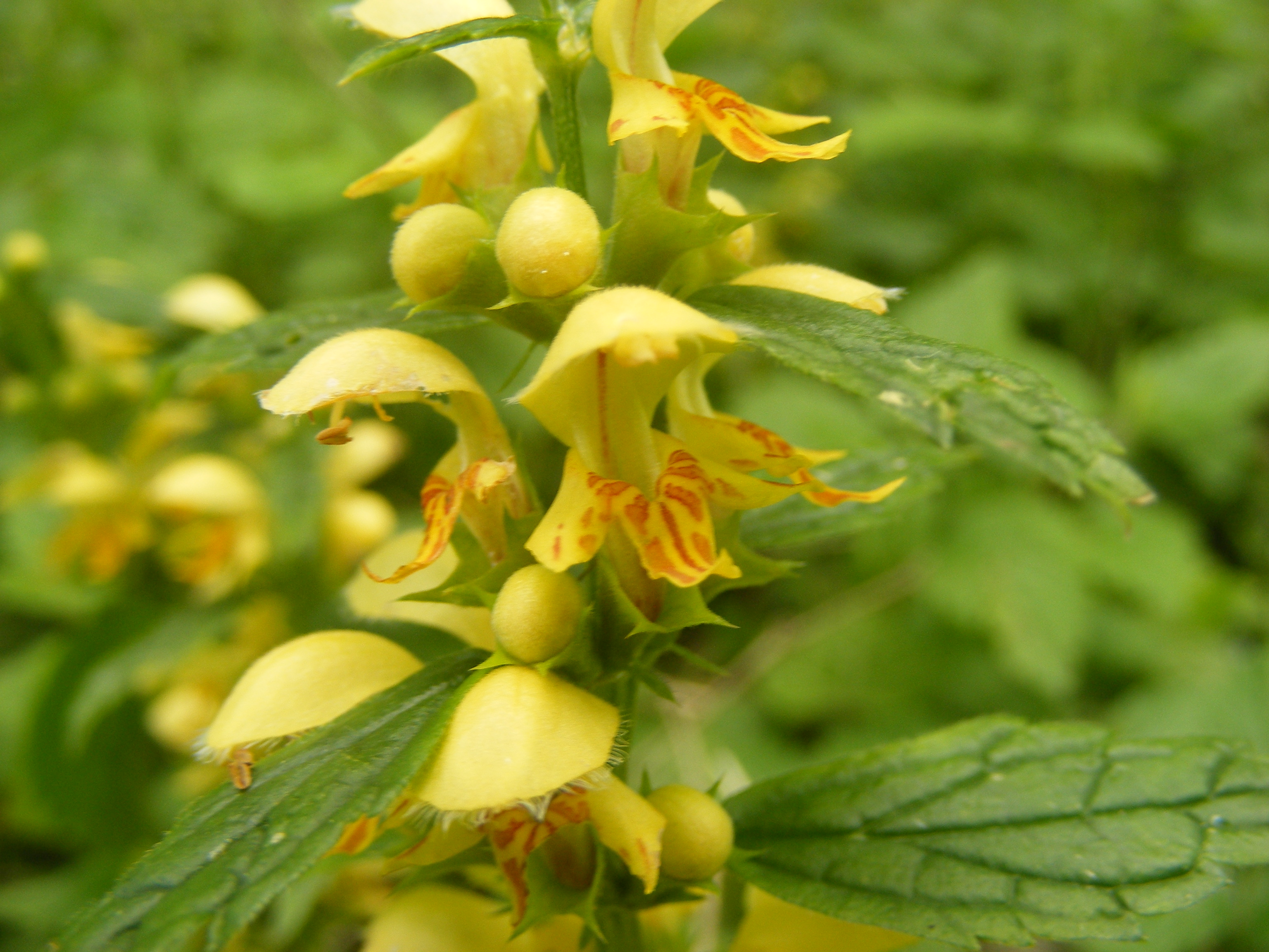 This photo shows Lamium galeobdolon